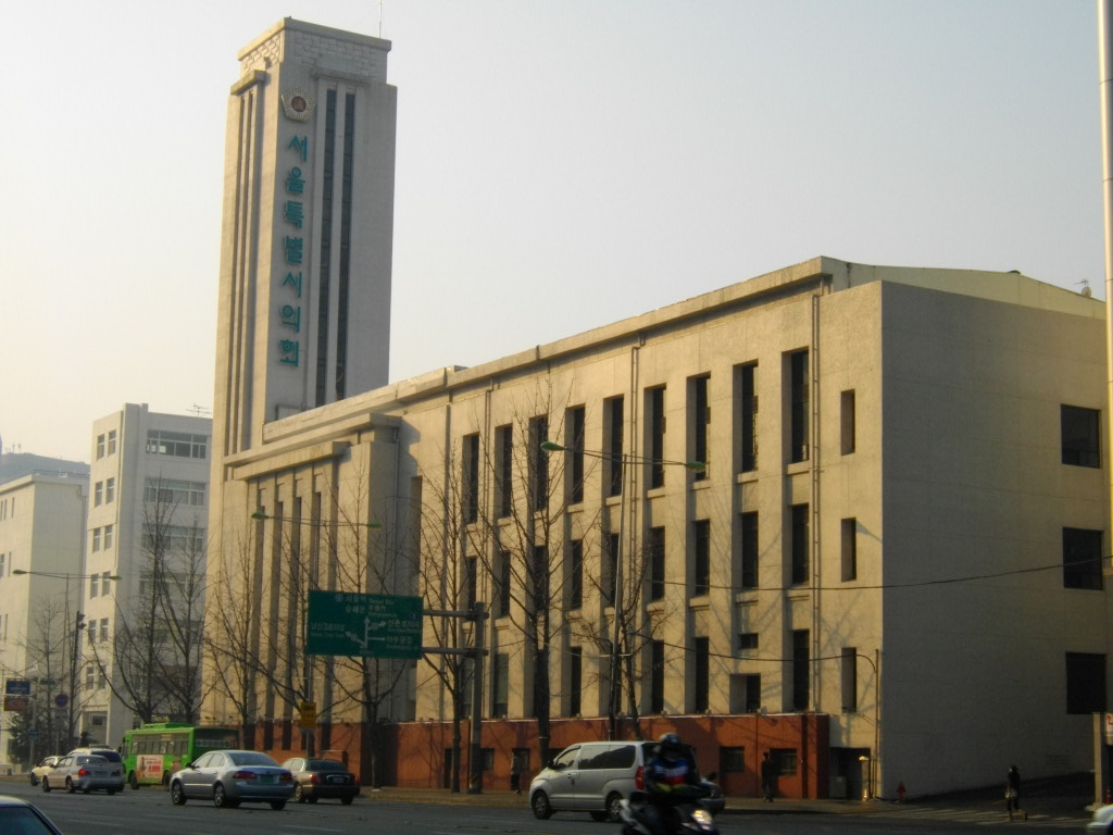 Seoul Metropolitan Council building — former colonial Keijo (Seoul) Public Hall. Built during the Japanese Colonial Korea period (1910-1945).